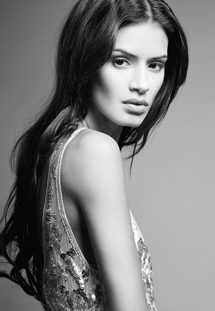 A photo of Jaslene Gonzalez, from her Elite Model Management portfolio.